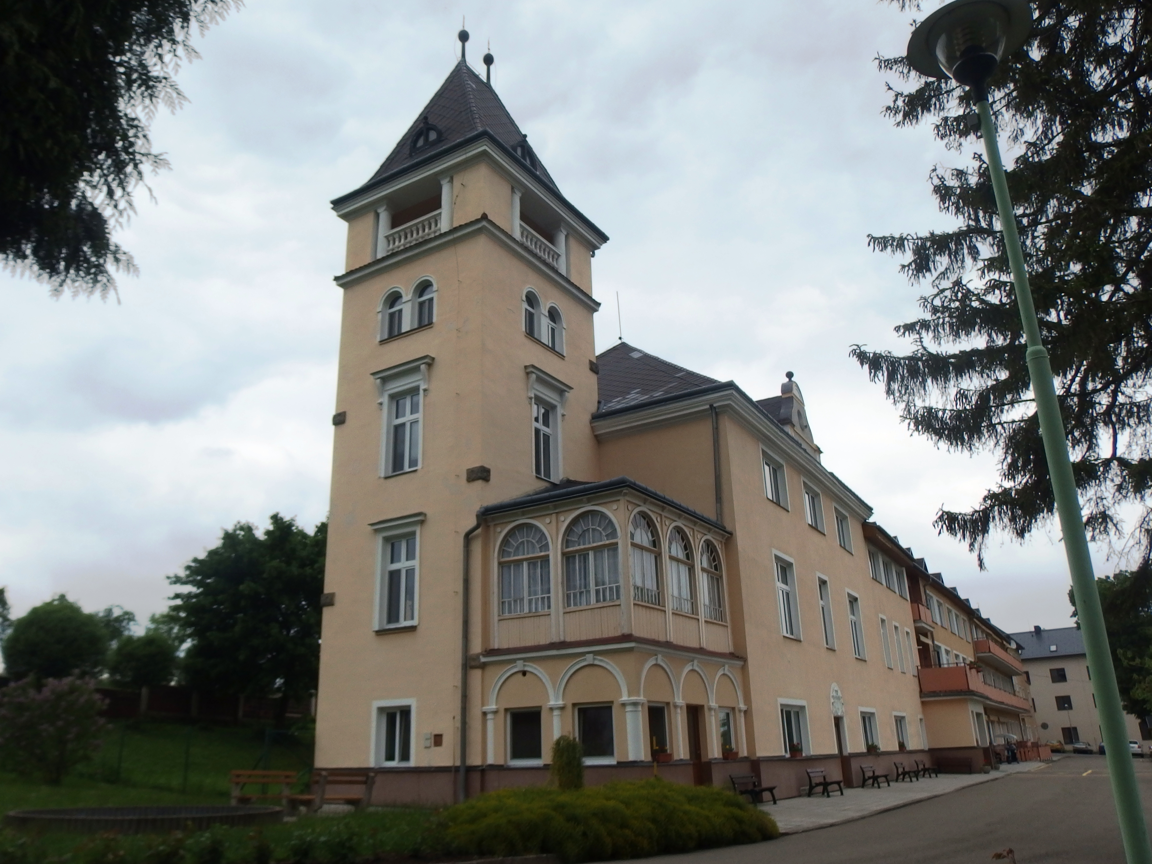 Radkova Lhota, Přerov District, Czech Republic.